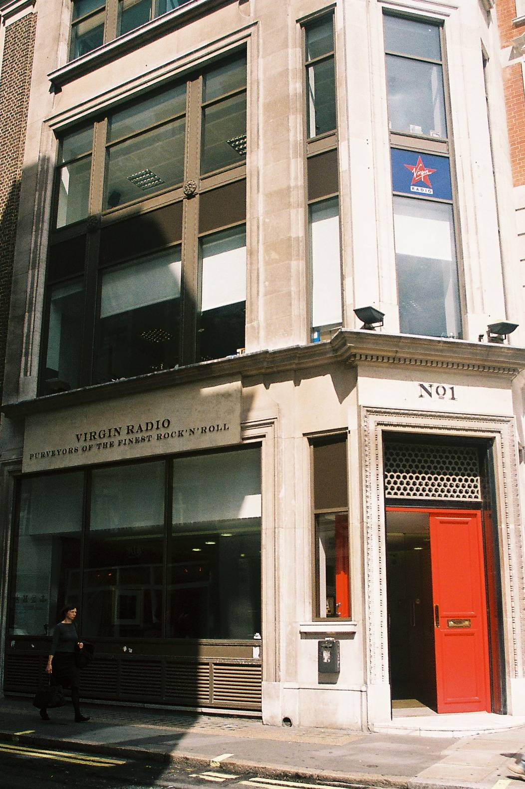 Virgin Radio's former office/studios in London, No.1 Golden Square, London W1F 9DJ